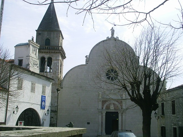 Town of Osor, Croatia TF2-A0A3